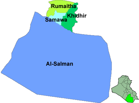 Districts of Districts of Salah al-Din Governorate.